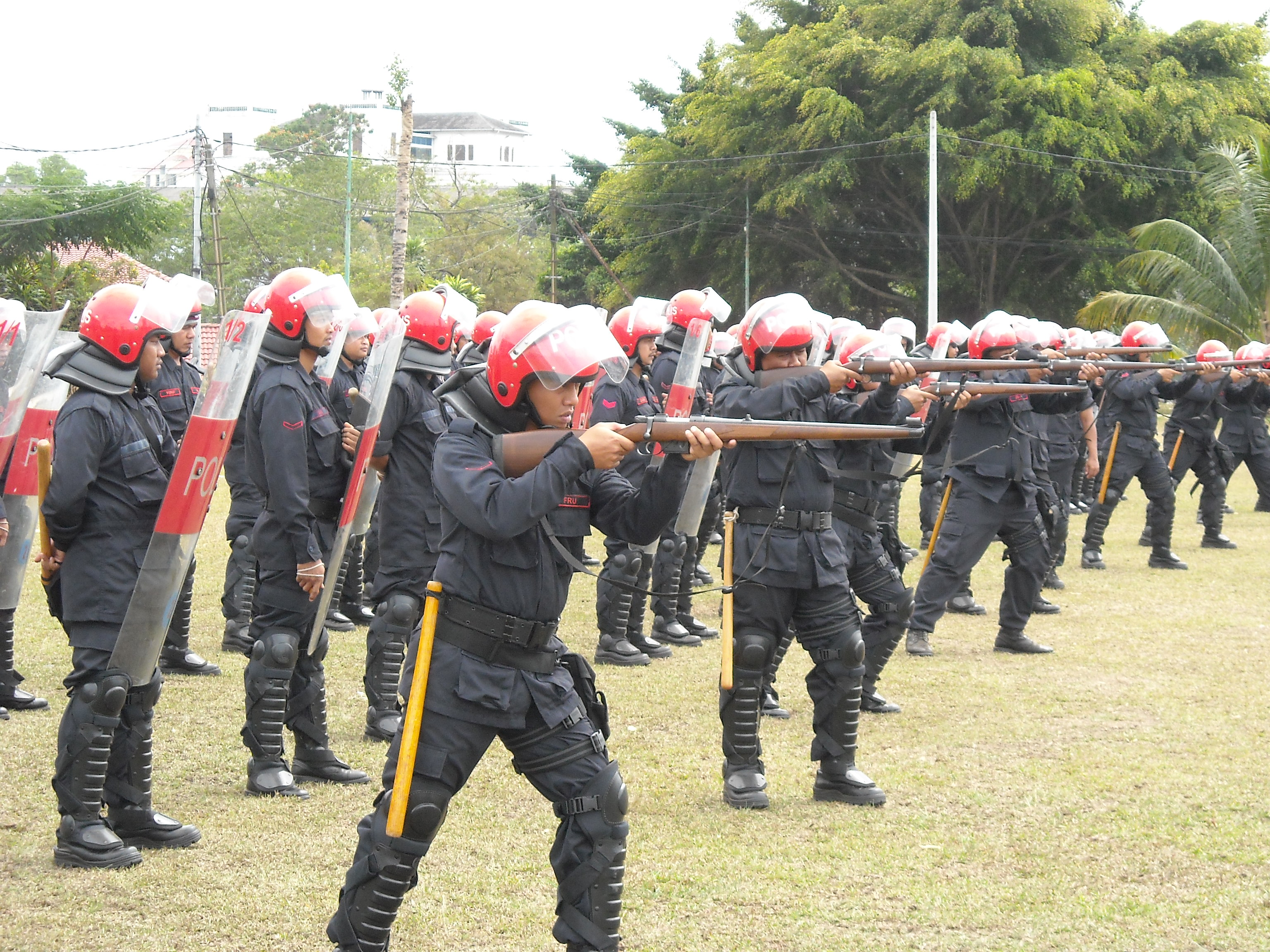 FRU 3rd group arms with Czech made CZ 527 bolt actions rifle without ammo during the anti-riot drill. Taken by me at Johor State Police Headquarter, Johor Bahru. (RELEASED)